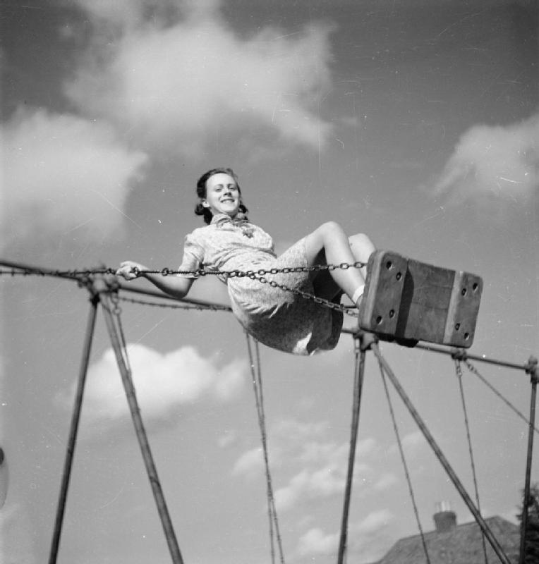 Local Government in a Country Town- Life in Wotton-under-edge, Gloucestershire, England, C 1944 A girl enjoys playing on the swings in the park in the village of Wotton-under-Edge in Gloucestershire, c 1944.